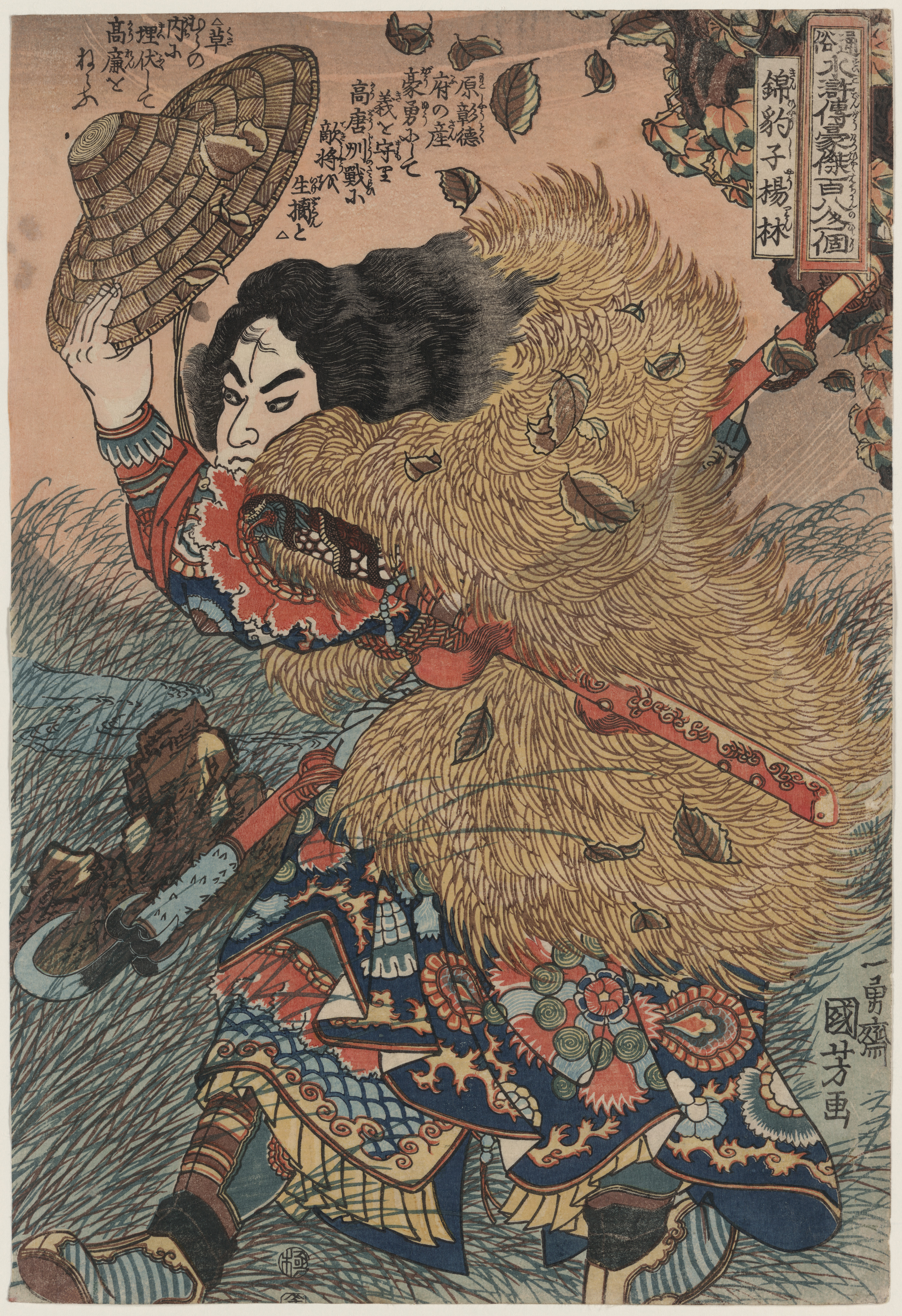 Kinhyōshi yōrin (Yang Lin), hero of the Suikoden (Water Margin). 1 print : woodcut, color ; 36 x 24.7 cm. Format: Vertical Oban Nishikie. From the series: Tsūzoku suikoden gōketsu hyakuhachinin no hitori : The popular edition of Suikoden: one of 108 brave warriors.